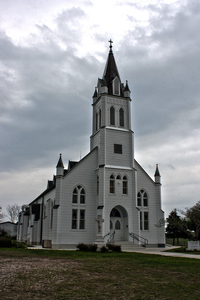 Built in1890, destroyed by a storm in 1909, then rebuilt shortly after. The 8 years later burned to the ground, then finally in 1917 the present church was built. It is part of the Painted Churches tour. Ammansville, TX